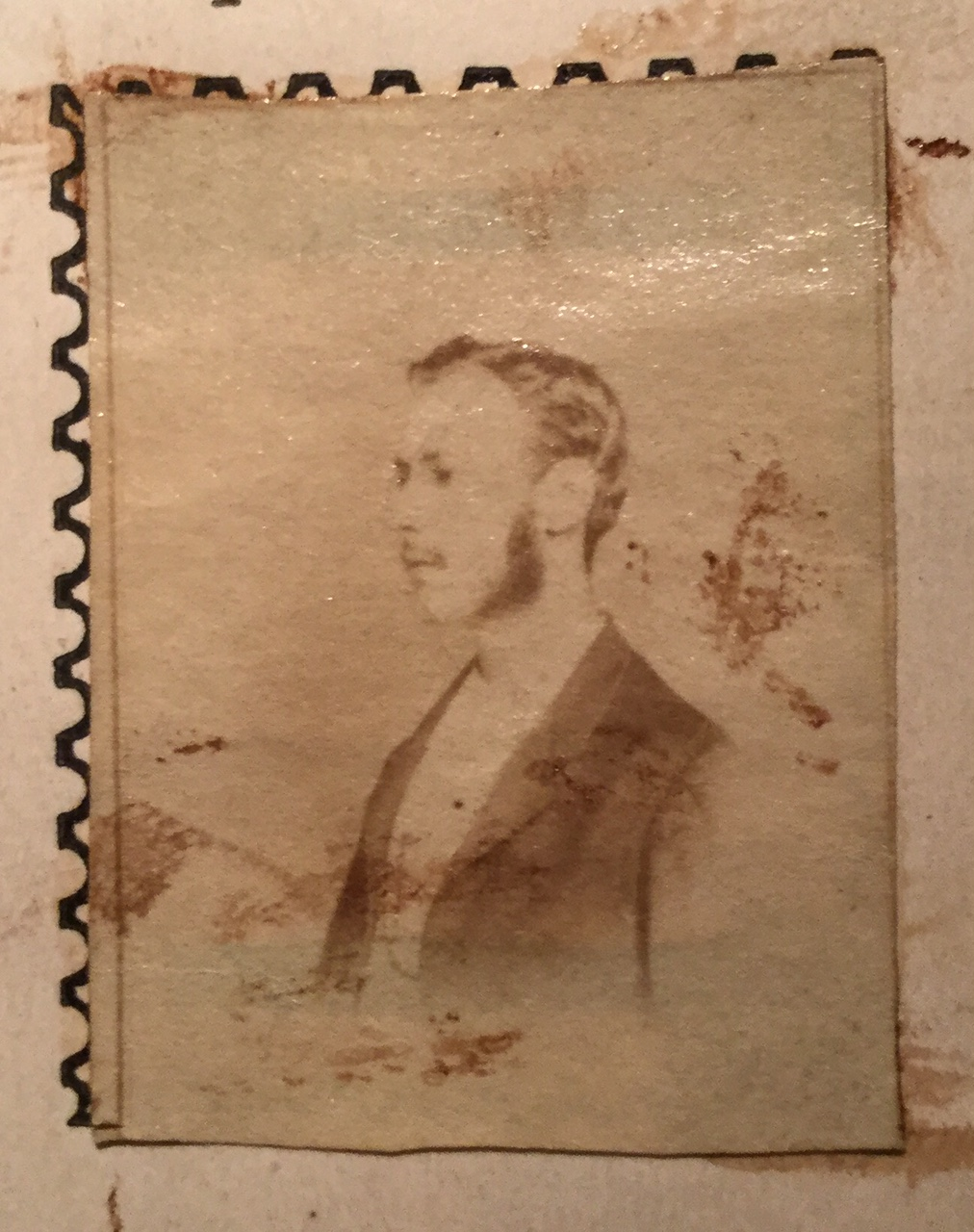 John Walter Scott portrait used as a label to be placed in his Postage Stamp Album copyright 1869, photographed from the second edition album of 1870, showing actual use in an album